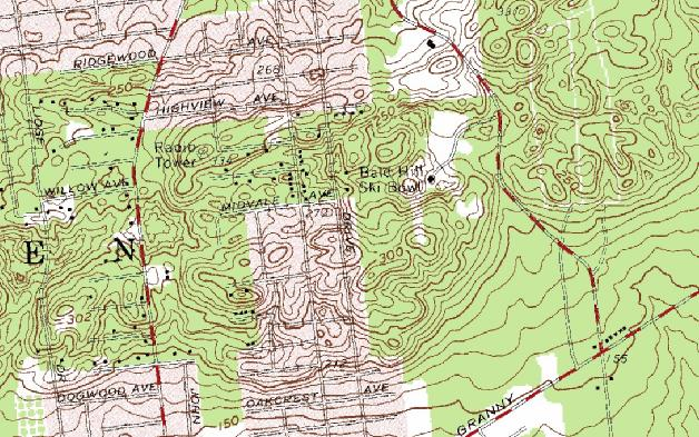 United States Geological Survey map excerpt showing the Bald Hill Ski Bowl area in Farmingville, New York